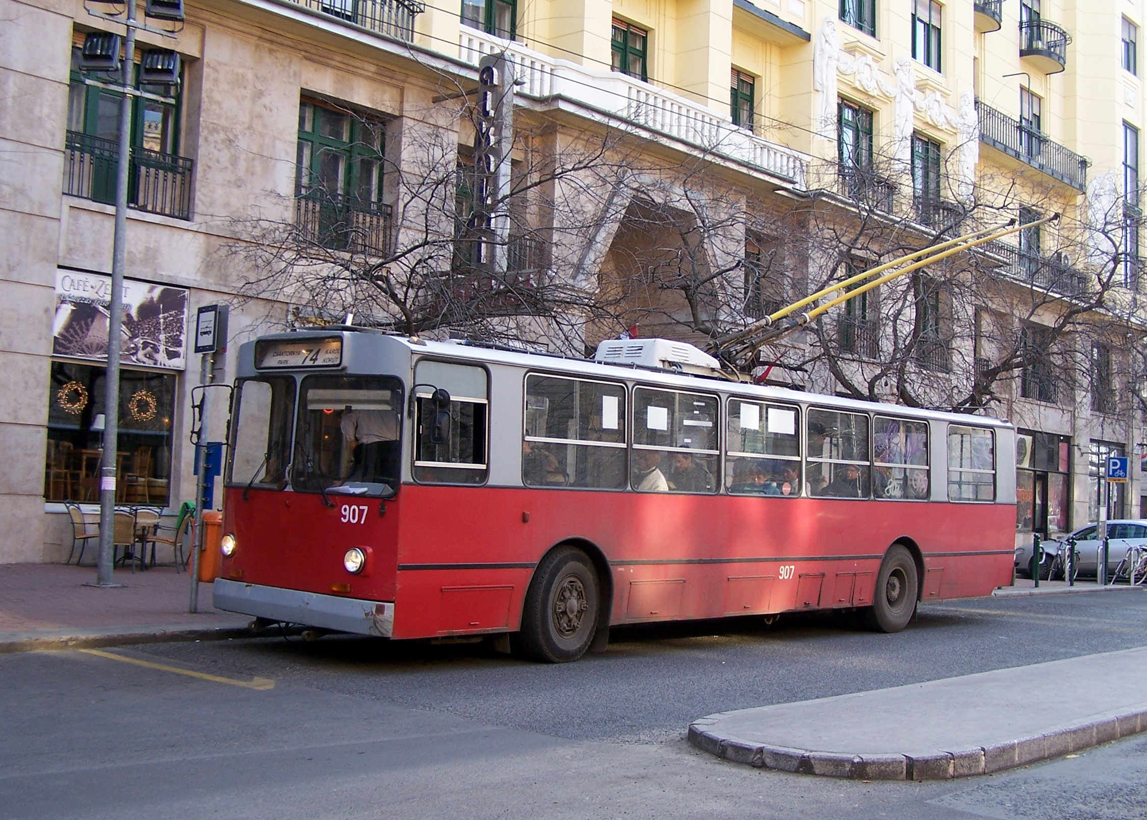 Trolley in front with the Great Synagogue in Dohány Street, Budapest